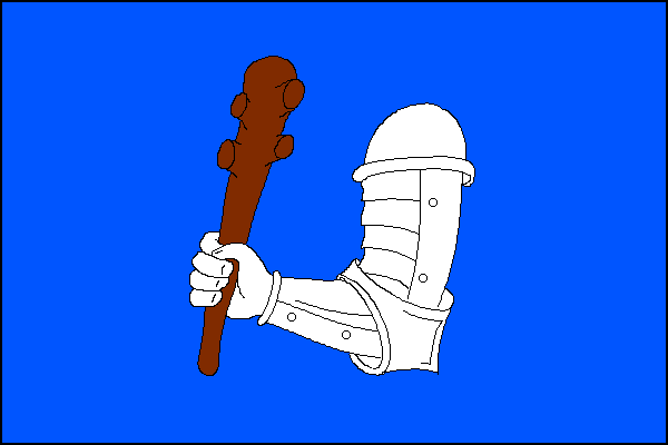 Municipal flag of Kyjov town, Hodonín District, Czech Republic.